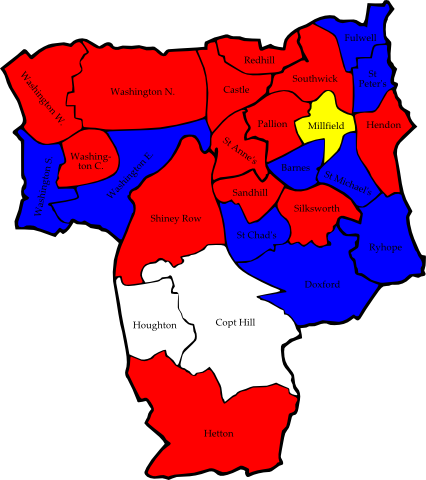 A map of the results of the 2008 Sunderland Council election. Colour legend by wards won: Labour party Conservative party Independent Liberal Democrats